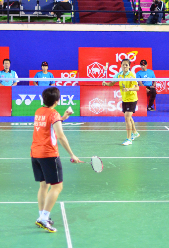 Pai vs Ratchanok